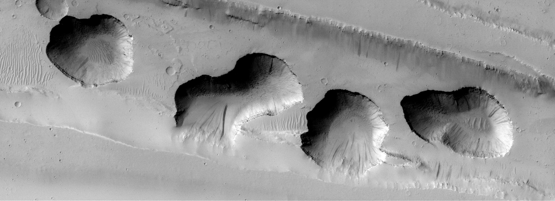 Endogenic crater chain on Mars, in Tractus Fossae. Center is at 23.79°N, 103.23°W. North is on the right and somewhat down. Photo by Mars Global Surveyor, made with Mars Orbiter Camera (MOC) 2 January 2004. Sun elevation is 46.7°.Size of the photo is 8×3 km.